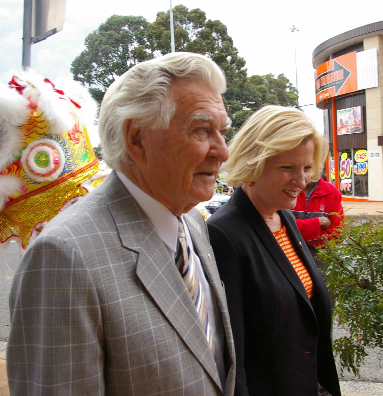 Bob Hawke campaigning in support of Kevin Rudd and Labor for the 2007 federal election with Julie Owens MP for Parramatta at a local retail precinct.